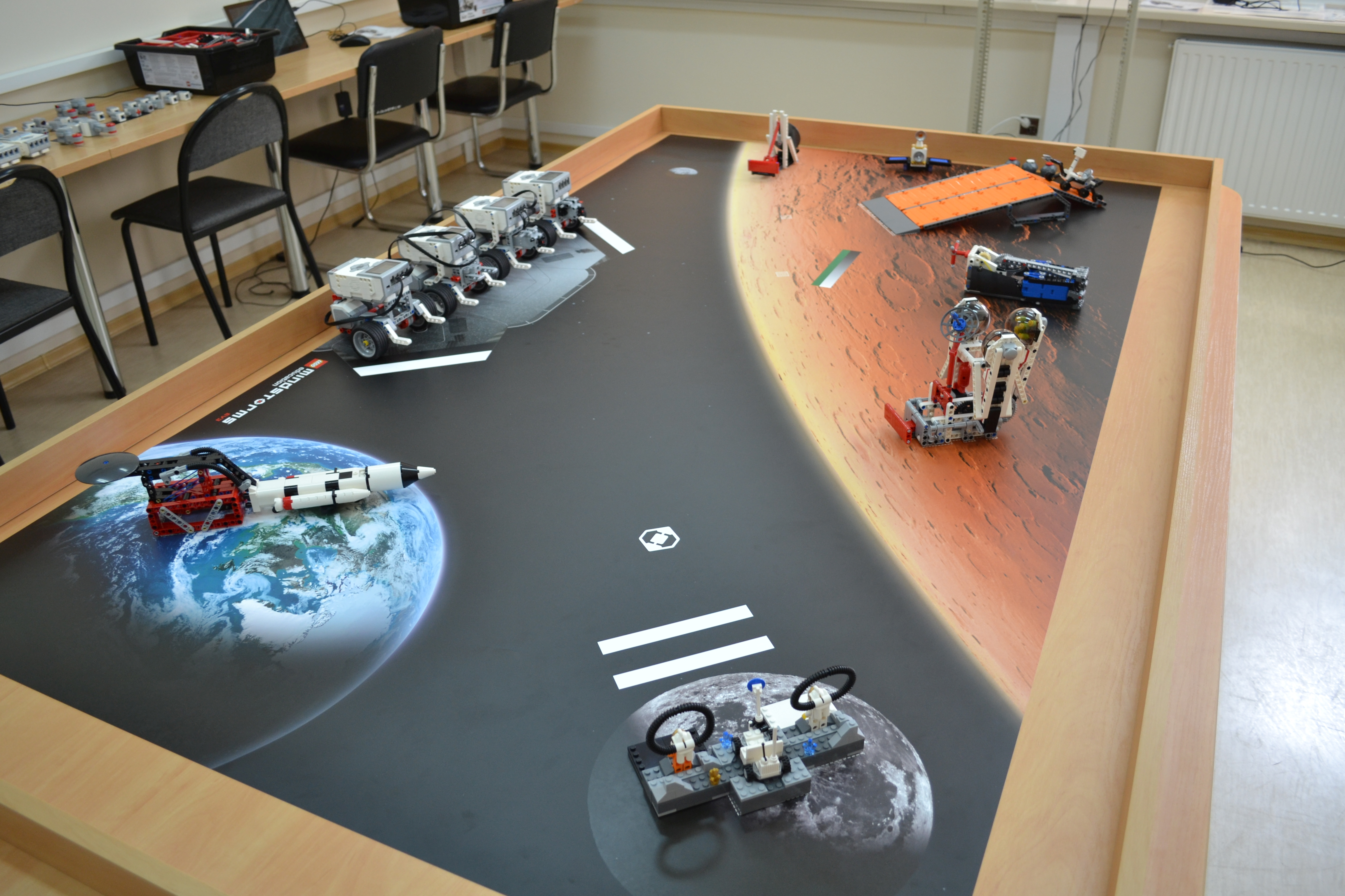 The Lab of Lego Programming Blocks in the Institute of Applied Computer Science